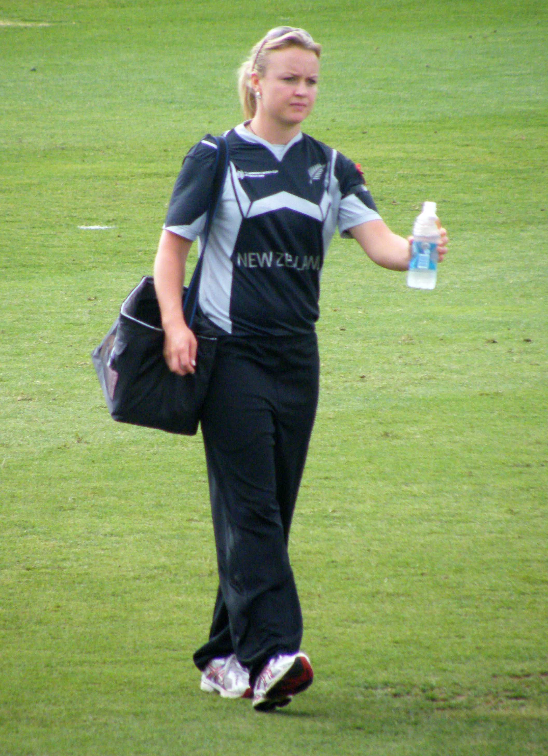 Beth McNeill of New Zeland - Womens Cricket World Cup - Sydney March 2009.